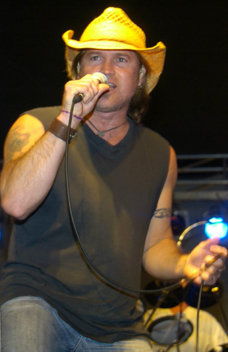 Billy Ray Cyrus singing at the Spirit of America tour.